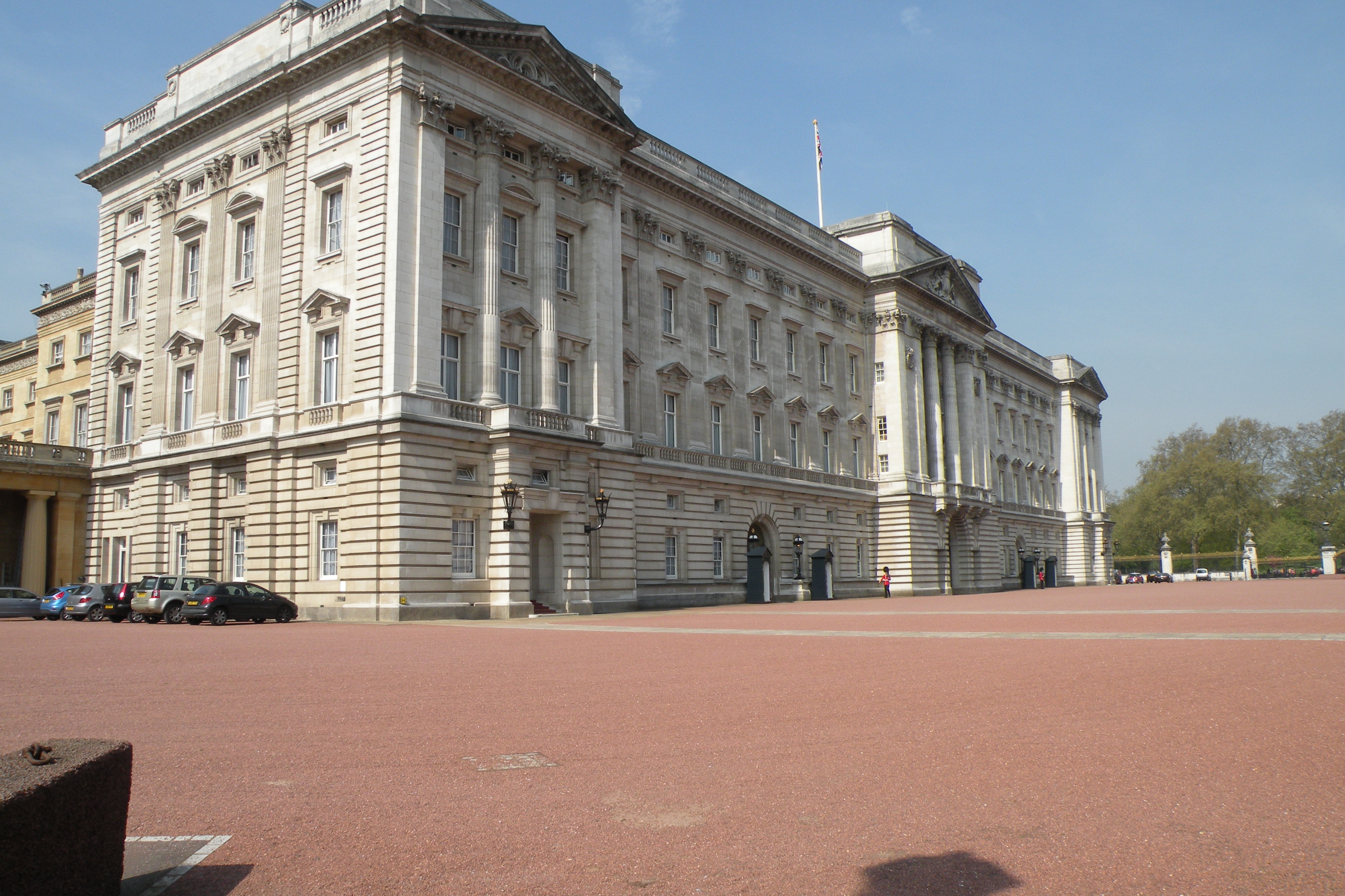 The Buckingham Palace.